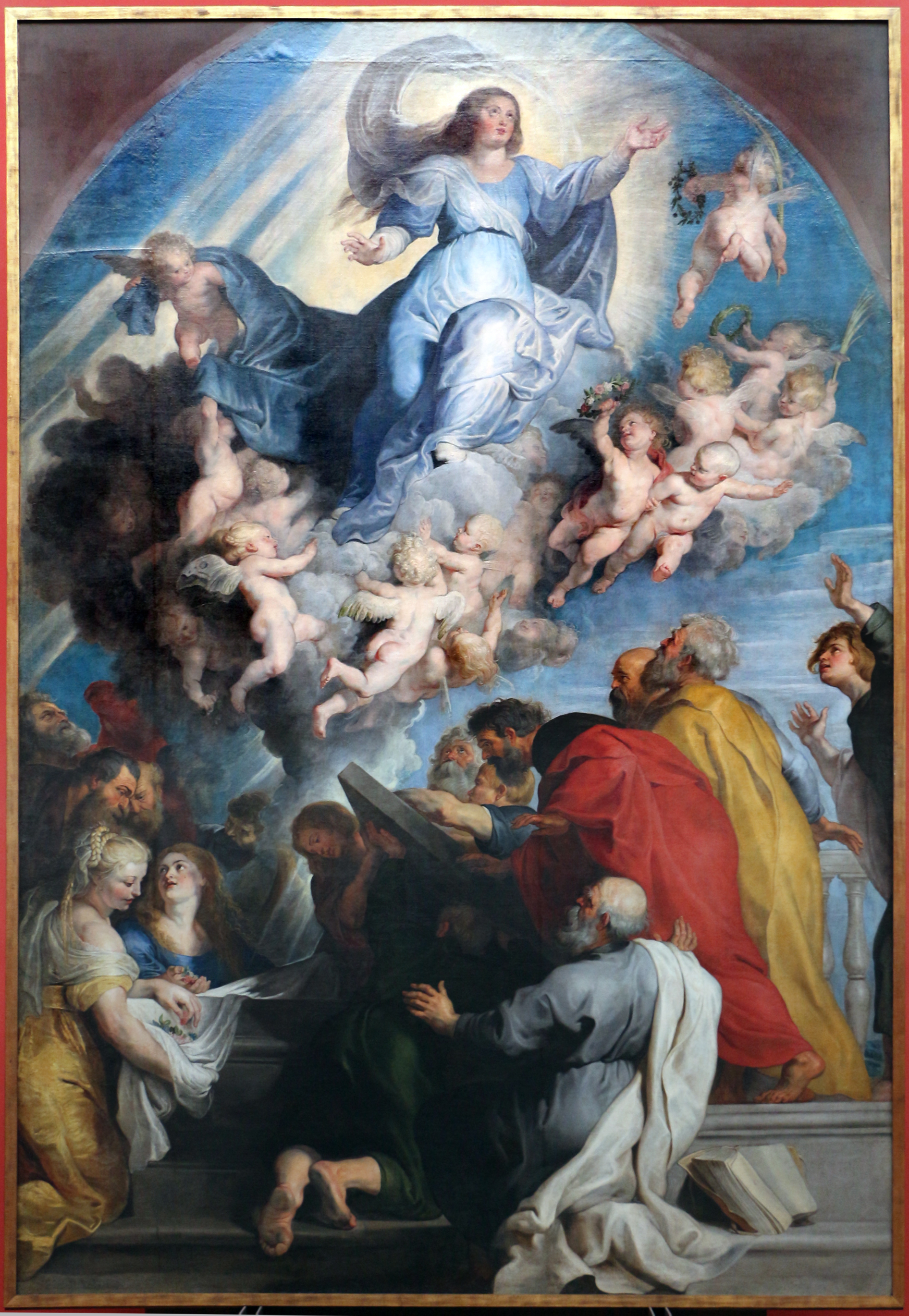 Paintings by Peter Paul Rubens in the Royal Museums of Fine Arts of Belgium